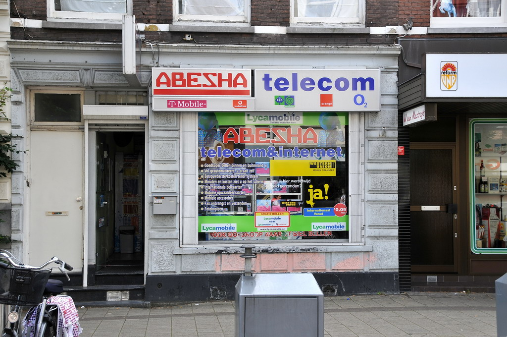 A branch of the Somali money transfer company Abesha Telecom (Libaan Telecom) in Rotterdam, Netherlands.